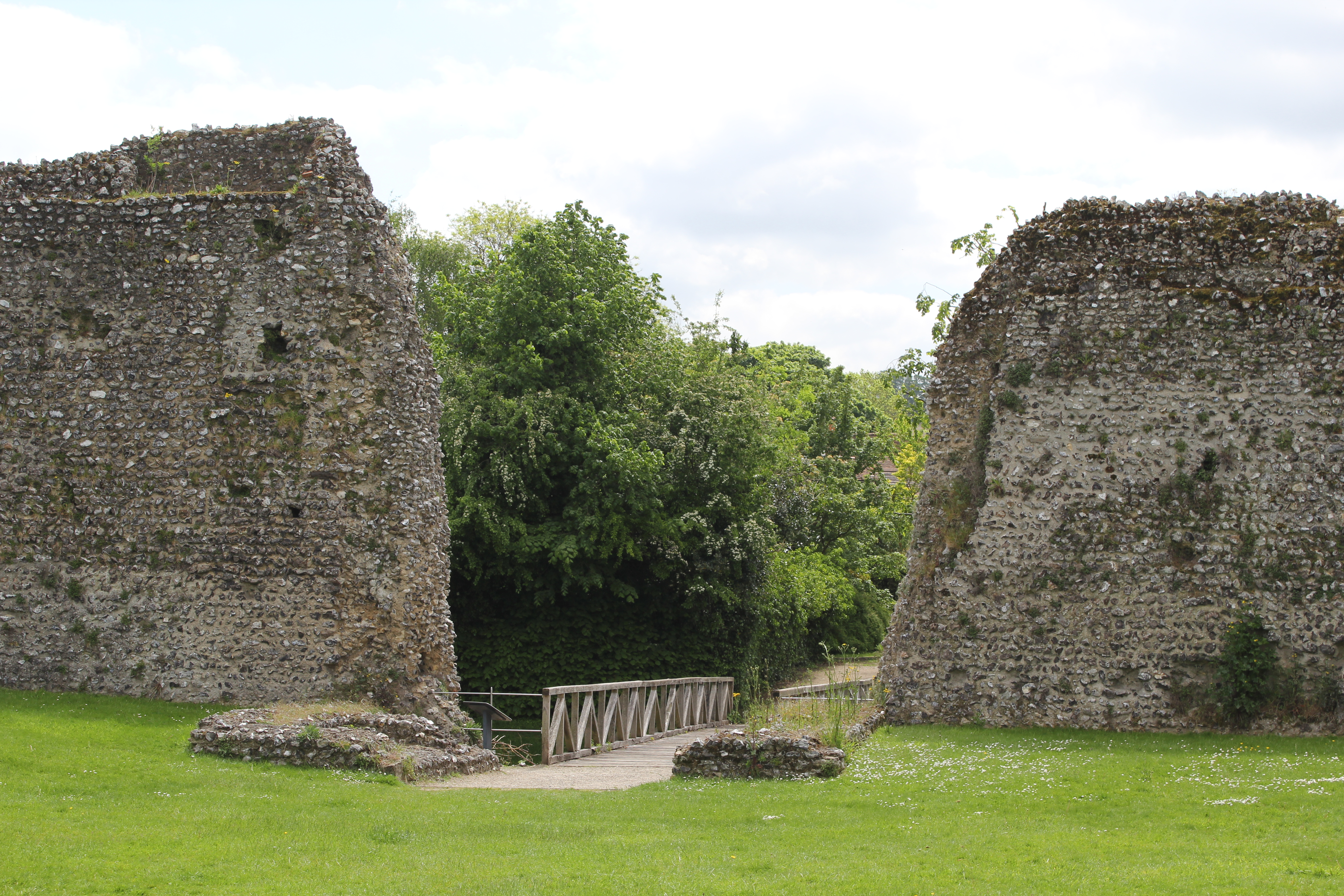 The ruined entrance seen from within the castle